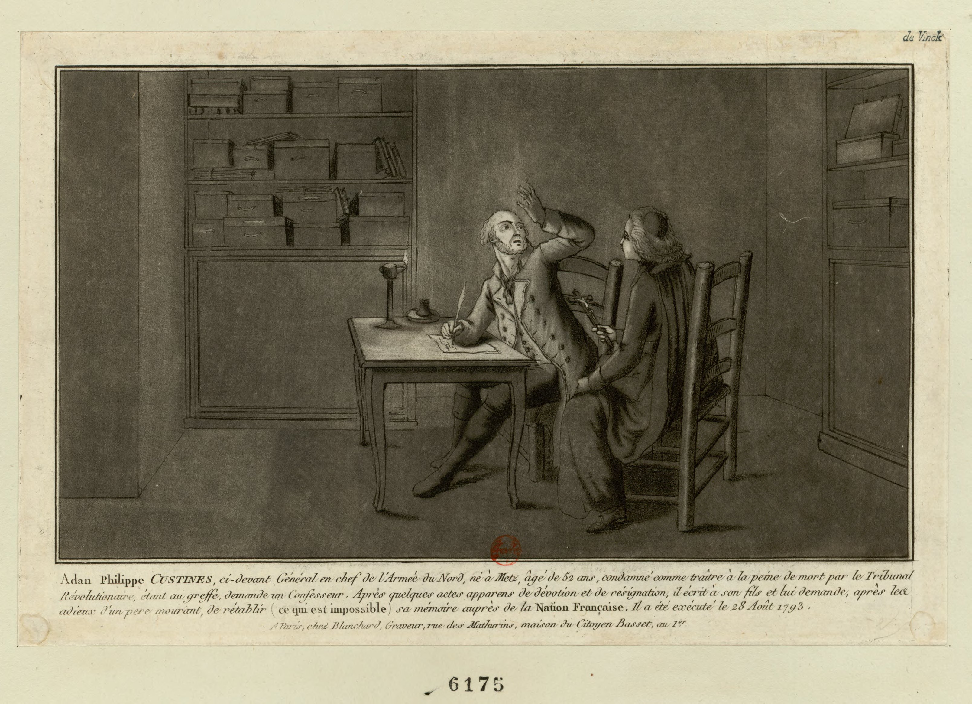 Custine last confession, and writing his testament before his execution